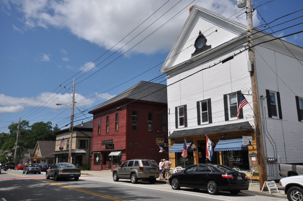 View of downtown Cornish, Maine.